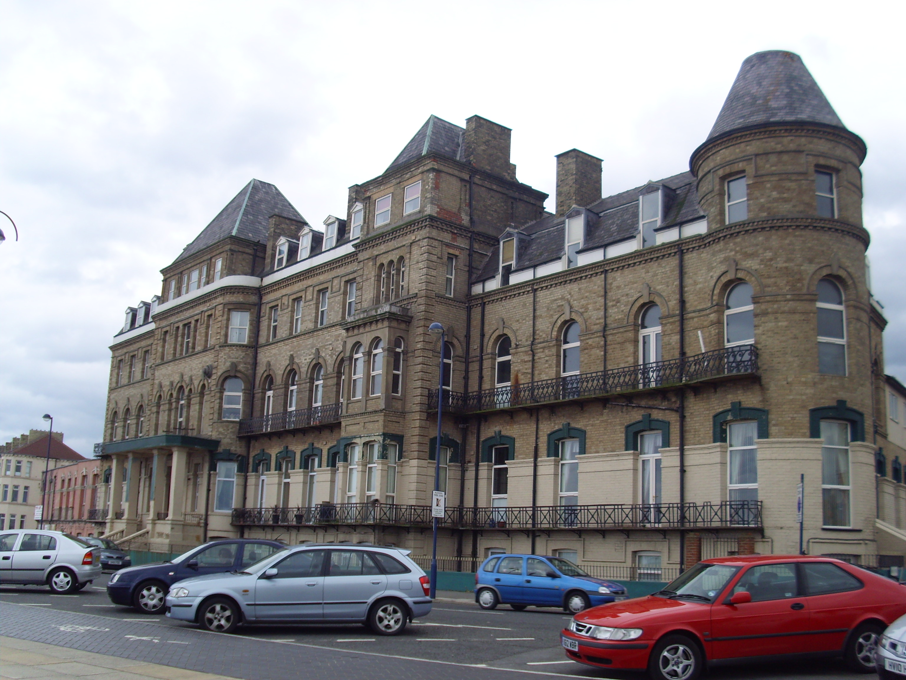 This is Coatham Hotel in Redcar, Cleveland